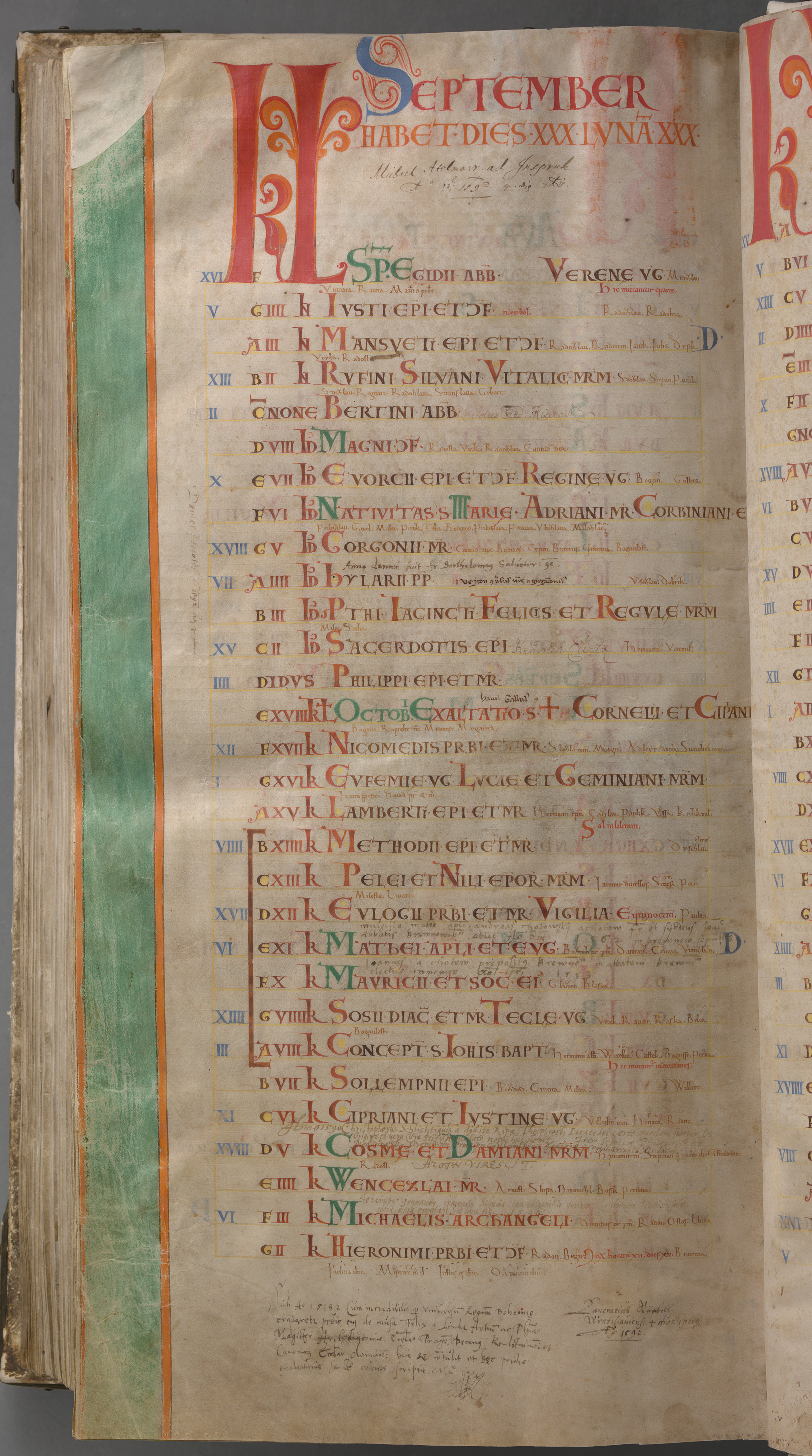 Giant Book) is the largest extant medieval manuscript in the world. It is also known as the Devil's Bible because of a large illustration of the devil on the inside and the legend surrounding its creation. It is thought to have been created in the early 13th century in the Benedictine monastery of Podlažice in Bohemia (modern Czech Republic). It contains the Vulgate Bible as well as many historical documents all written in Latin. During the Thirty Years' War in 1648, the entire collection was taken by the Swedish army as plunder, and now it is preserved at the National Library of Sweden in Stockholm, though it is not normally on display.